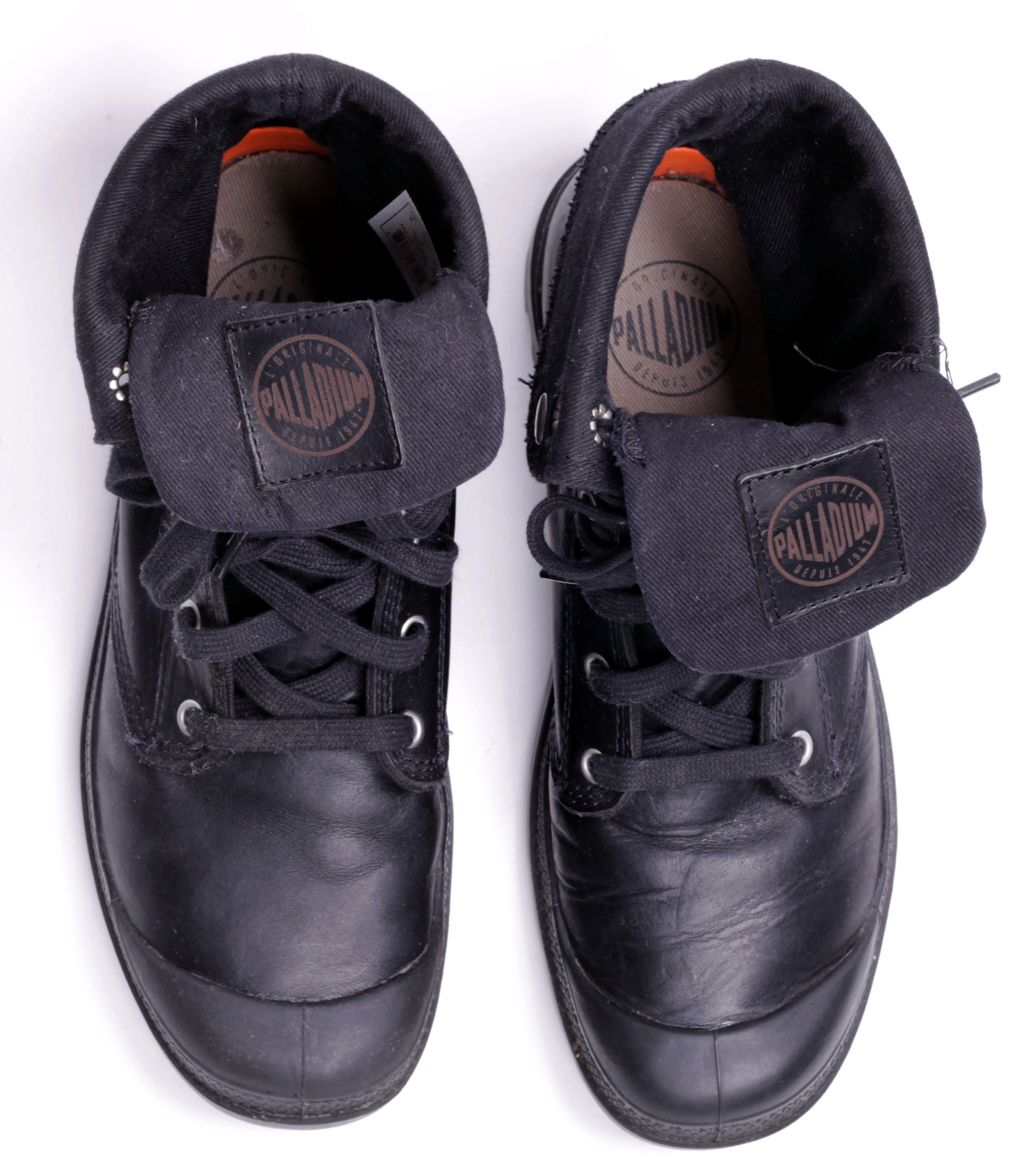 Boots by Palladium. Photo by Menswear Market